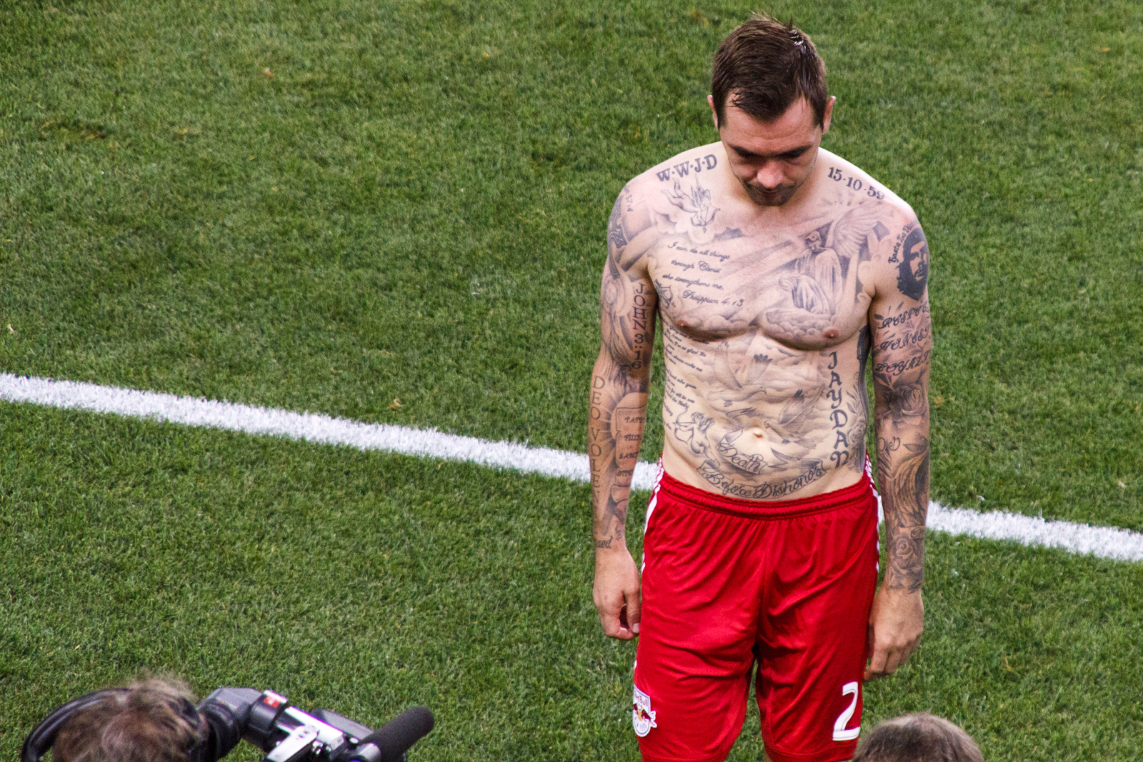 Shirtless Steele with Tattoos